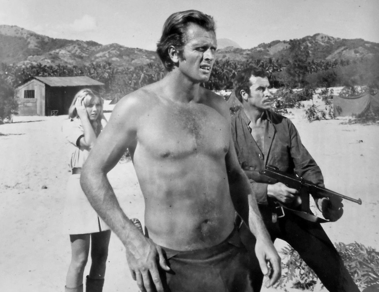 Photo of Barbara Bouchet, Ron Ely and Fernando Lamas from the television series Tarzan.